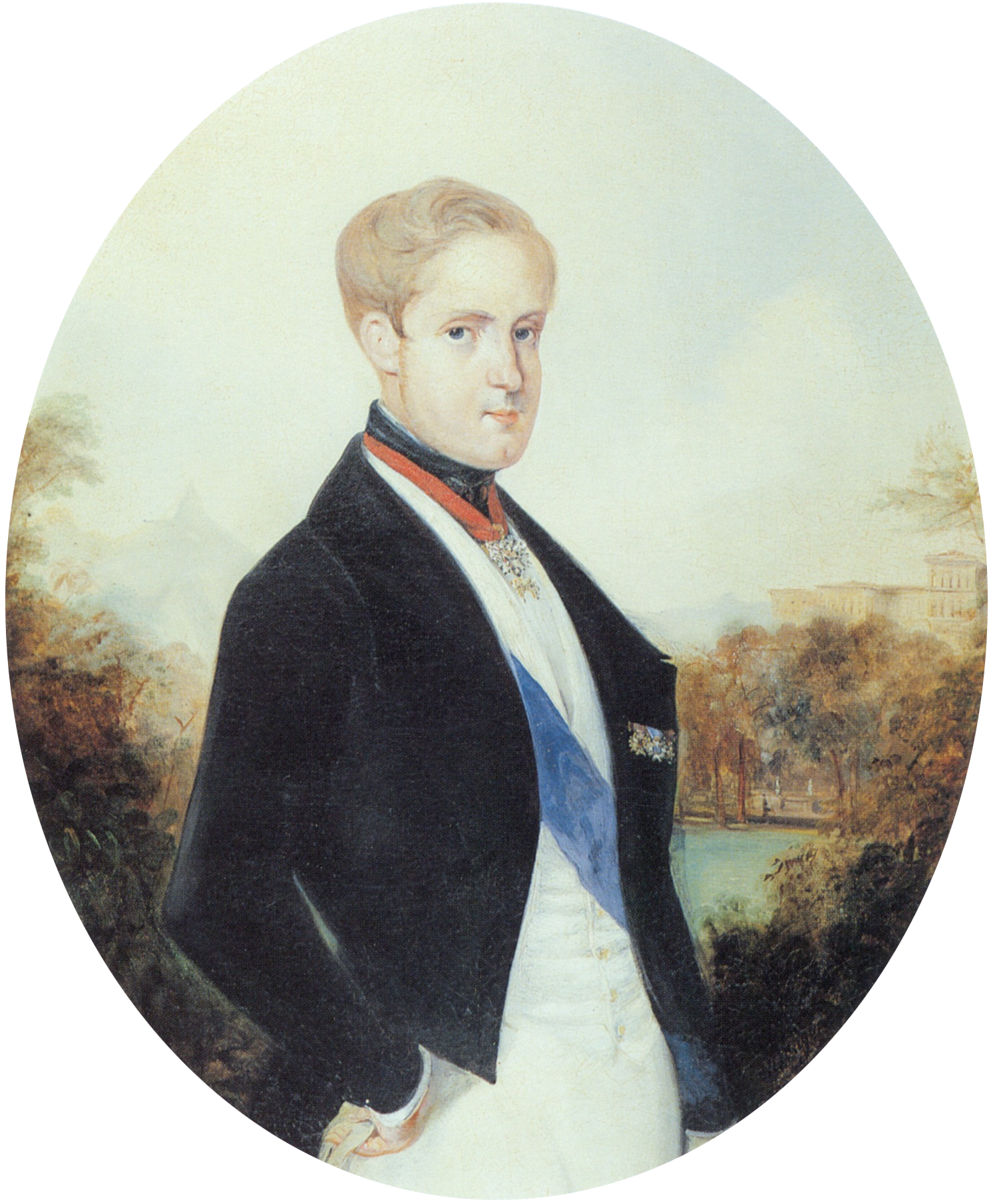 Emperor Pedro II of Brazil, 1846.